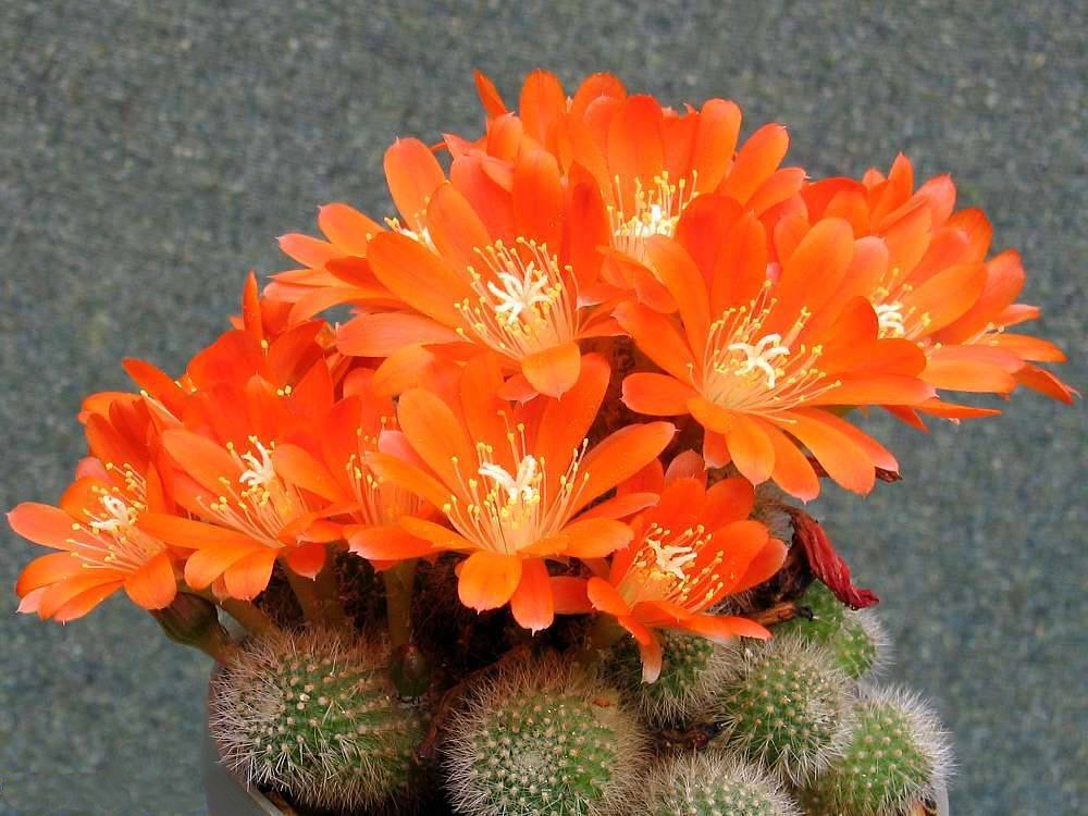 Rebutia fiebrigii (Rebutia spinosissima) - cultivated plant from own collection.